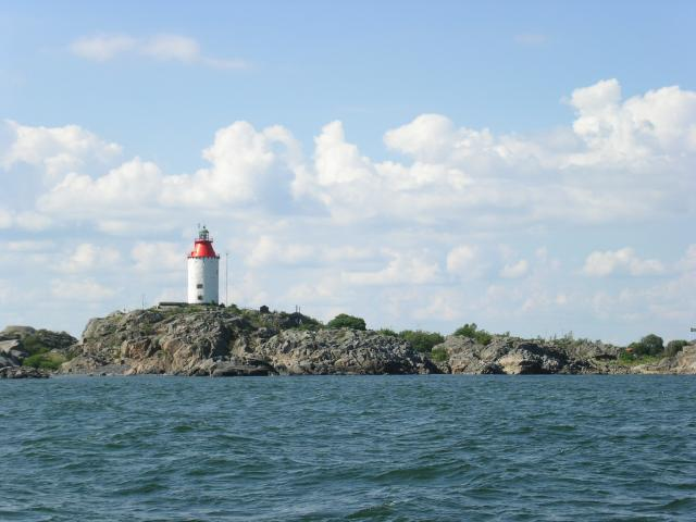 Landsort ligthouse, Sweden